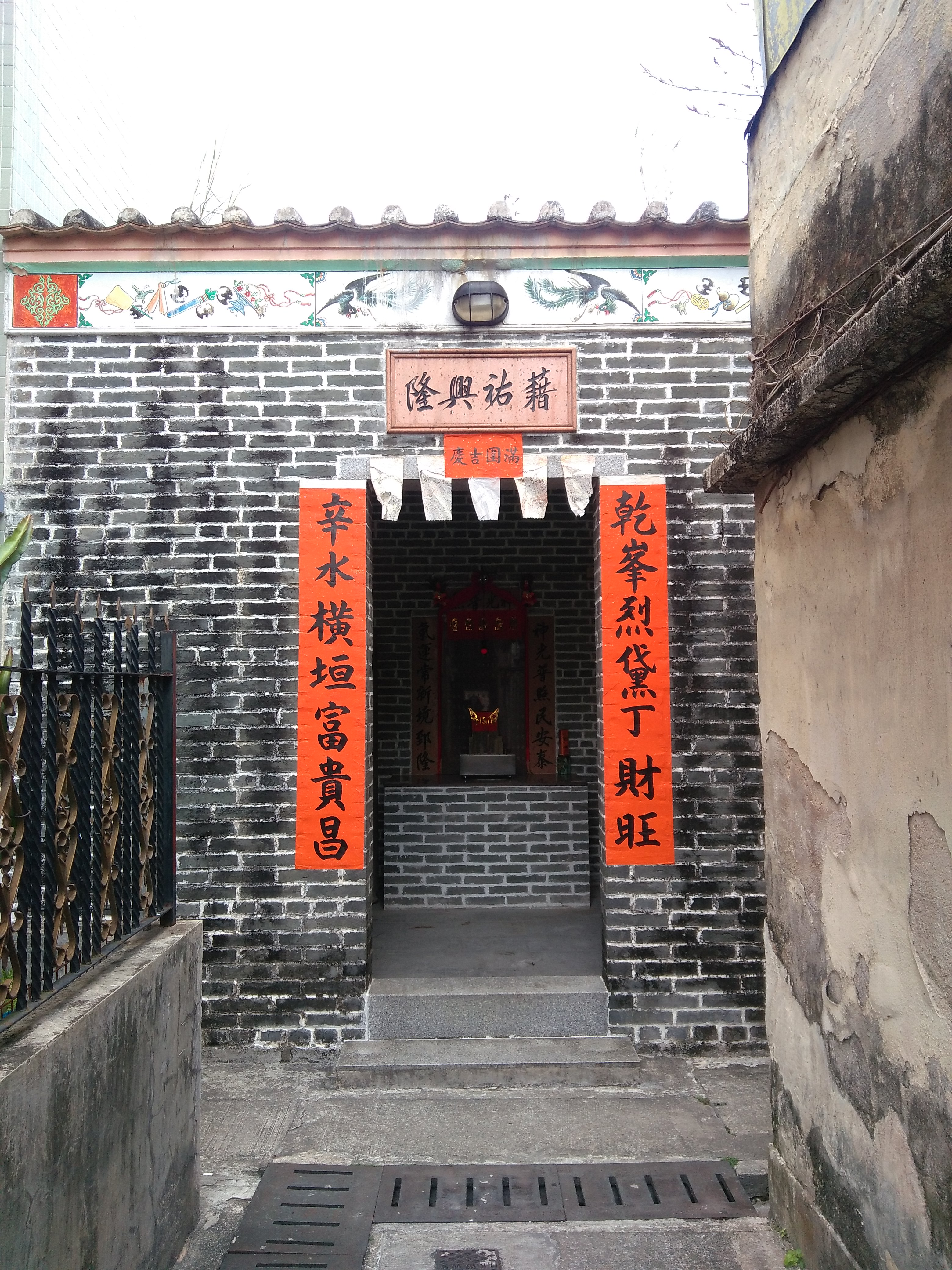 Hong Kong